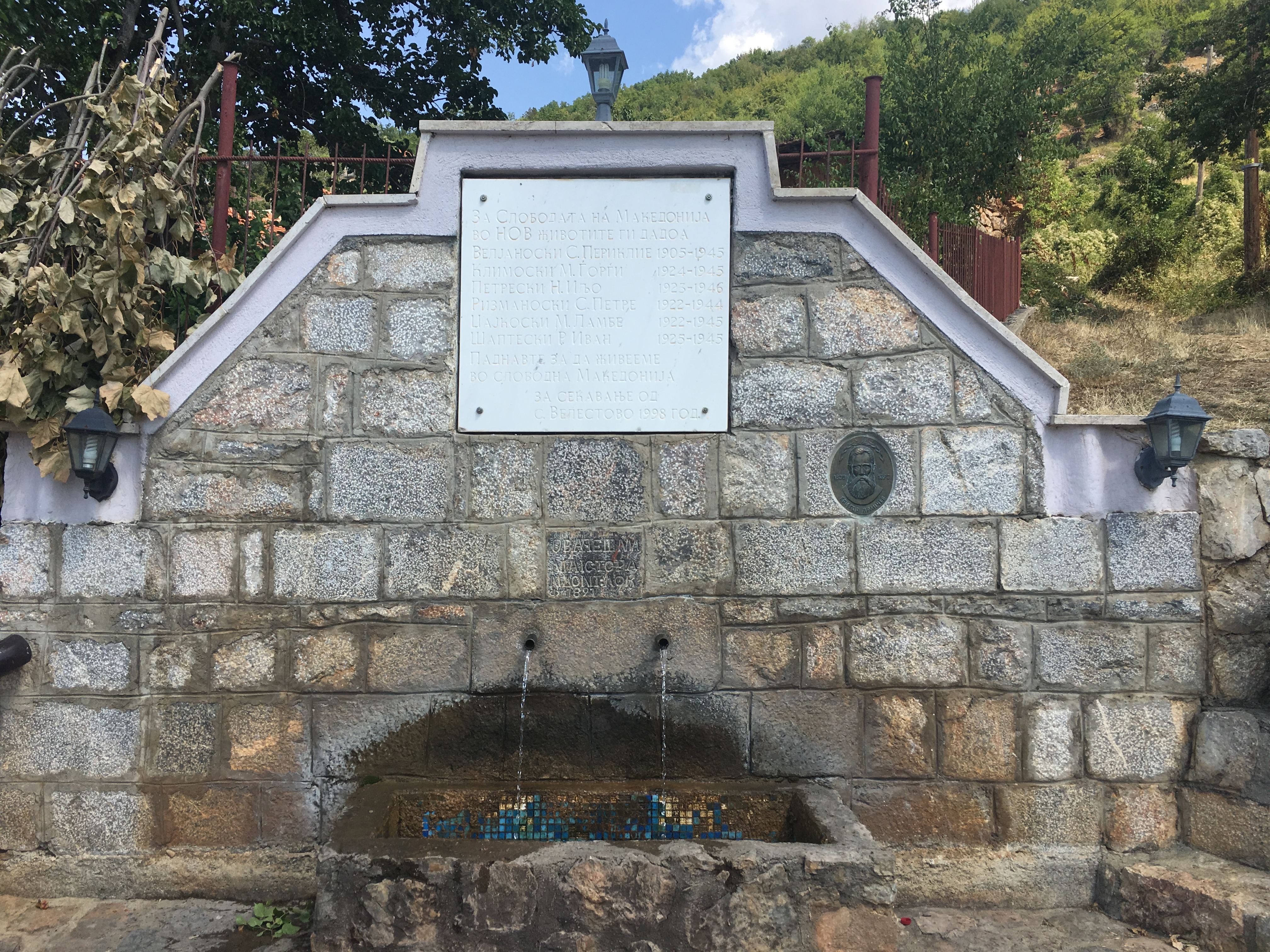 A pump in the village of Velestovo